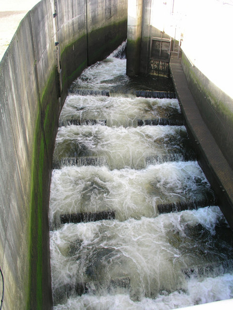 Salmon Leap Bypass - Cardiff Bay Barrage This fish pass allows salmon returning from wherever they went to return to via the new Cardiff Bay Barrage to the River Taff. A fisherman friend, Colin Cook, says that he has seen many salmon leaping up Black Weir a couple of miles up the Taff from here. (The term Weir is the closest I could get from the choices offered)